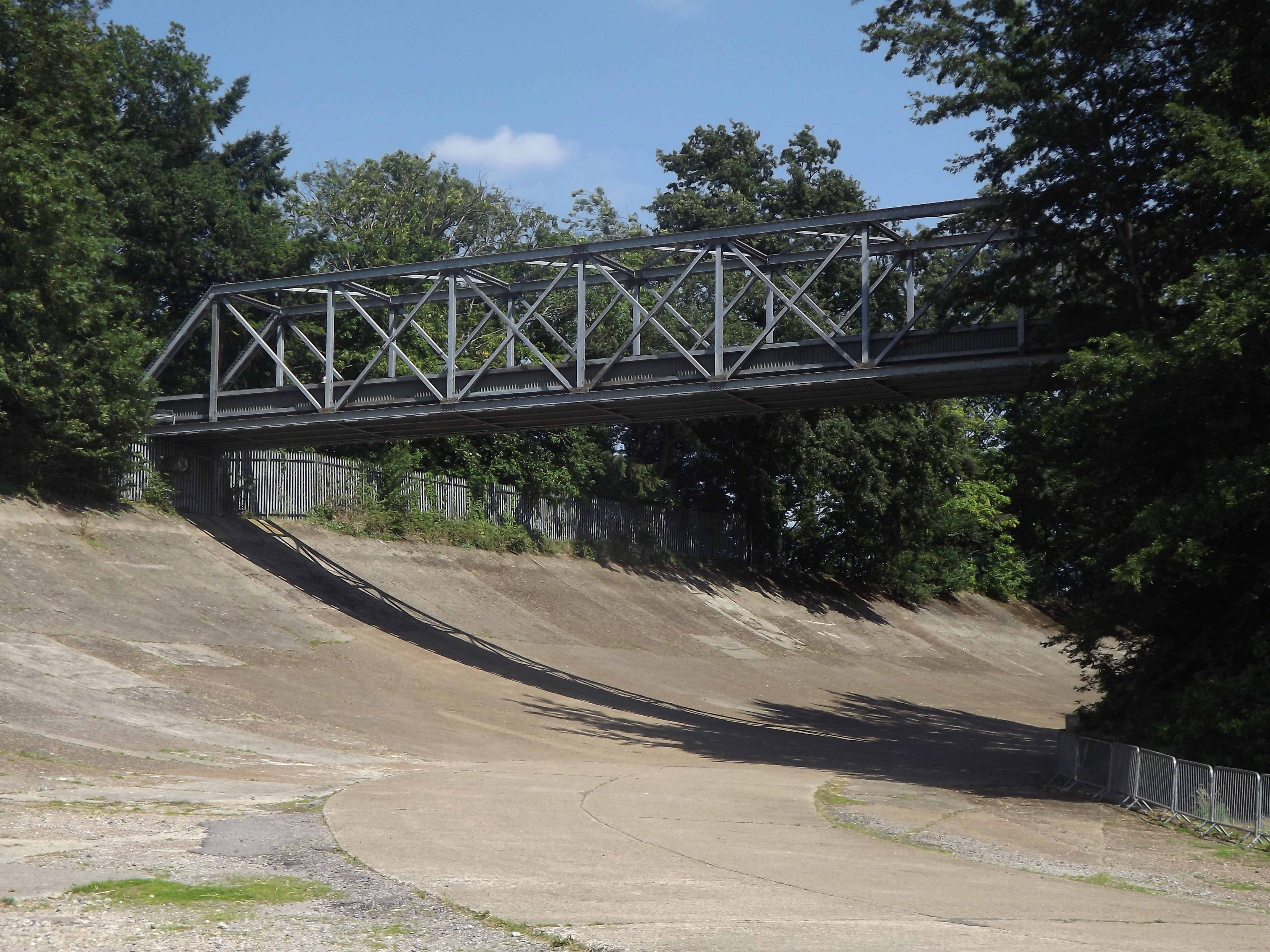 Member's Bridge